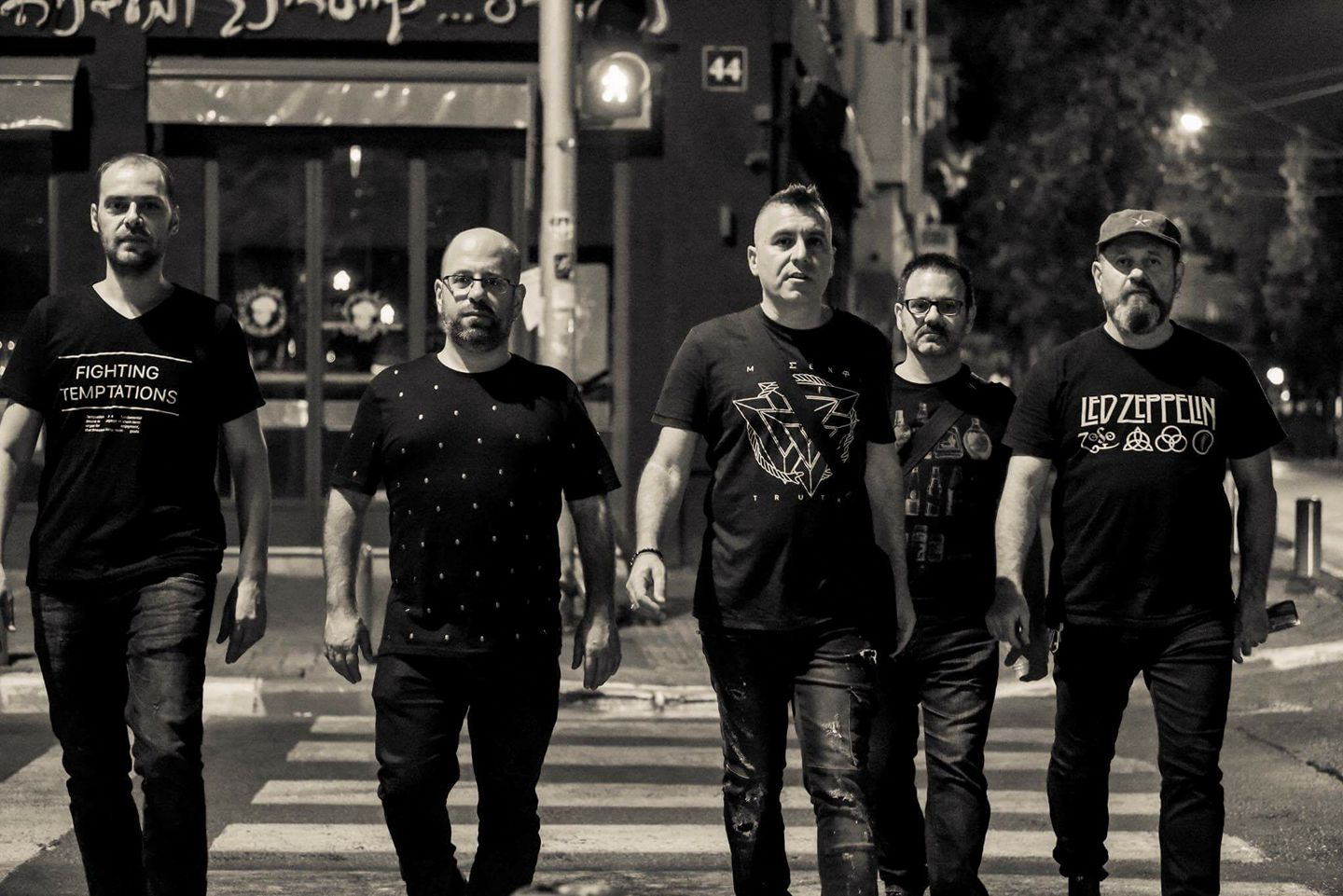 Pentagon_Band